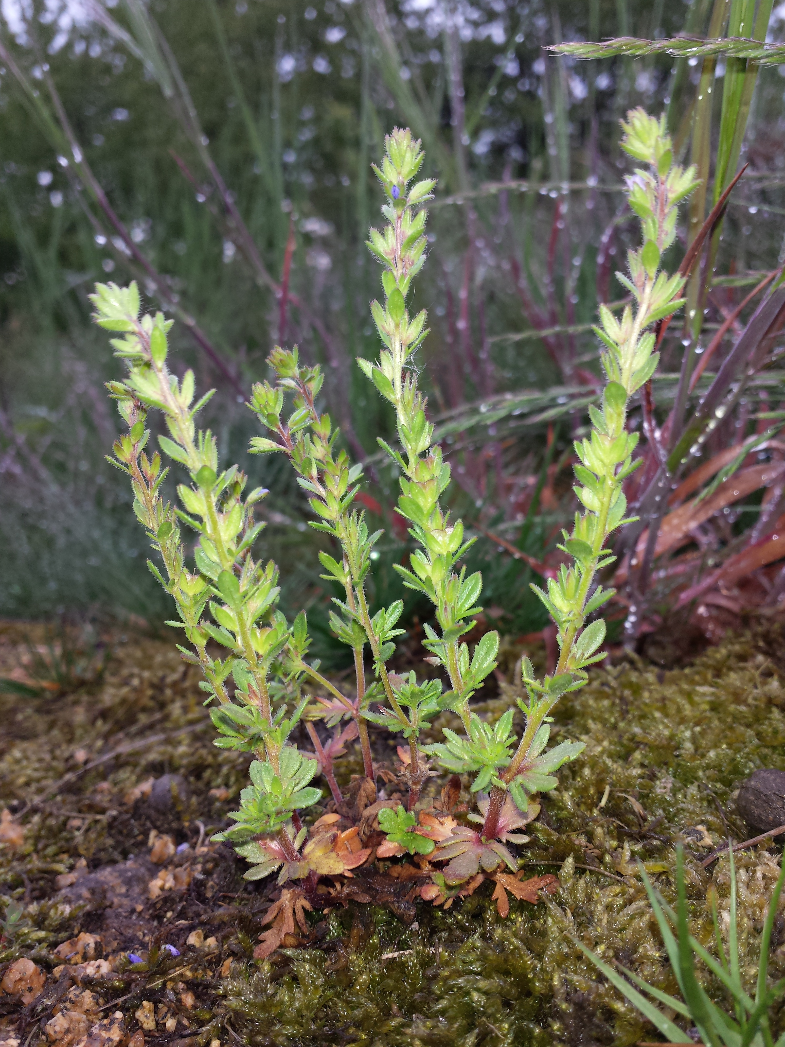 Habitus Taxonym: Veronica dillenii ss Fischer et al. EfÖLS 2008 ISBN 978-3-85474-187-9 Location: Hühnerbühel near Etzmannsdorf, district Horn, Lower Austria - ca. 350 m a.s.l. Habitat: acid dry grassland